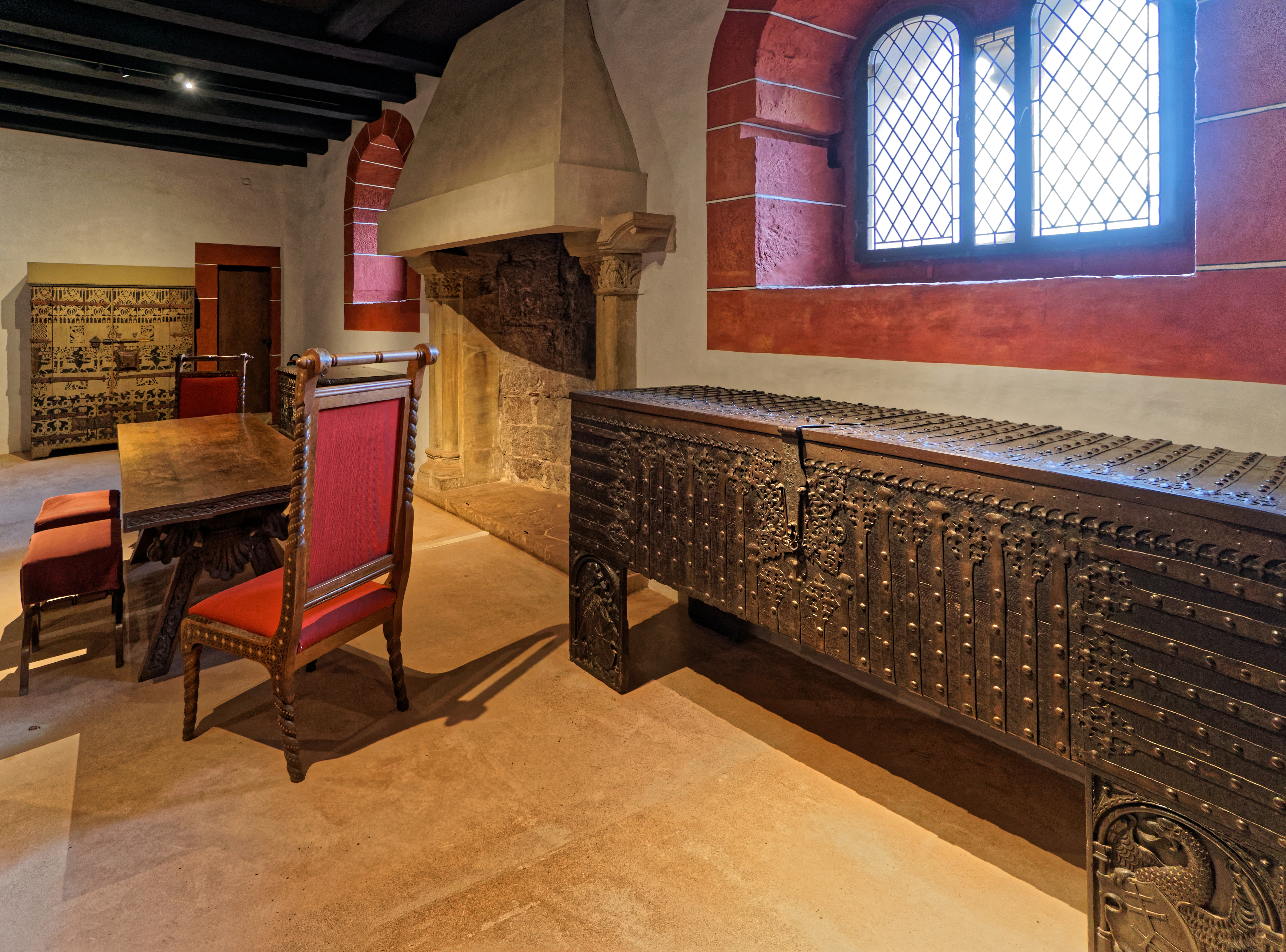 Dining room in the palace of the Wartburg.